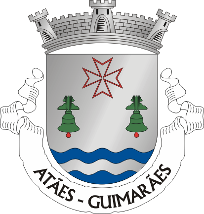 Crest of Atães parish, Guimarães municipality (Portugal)